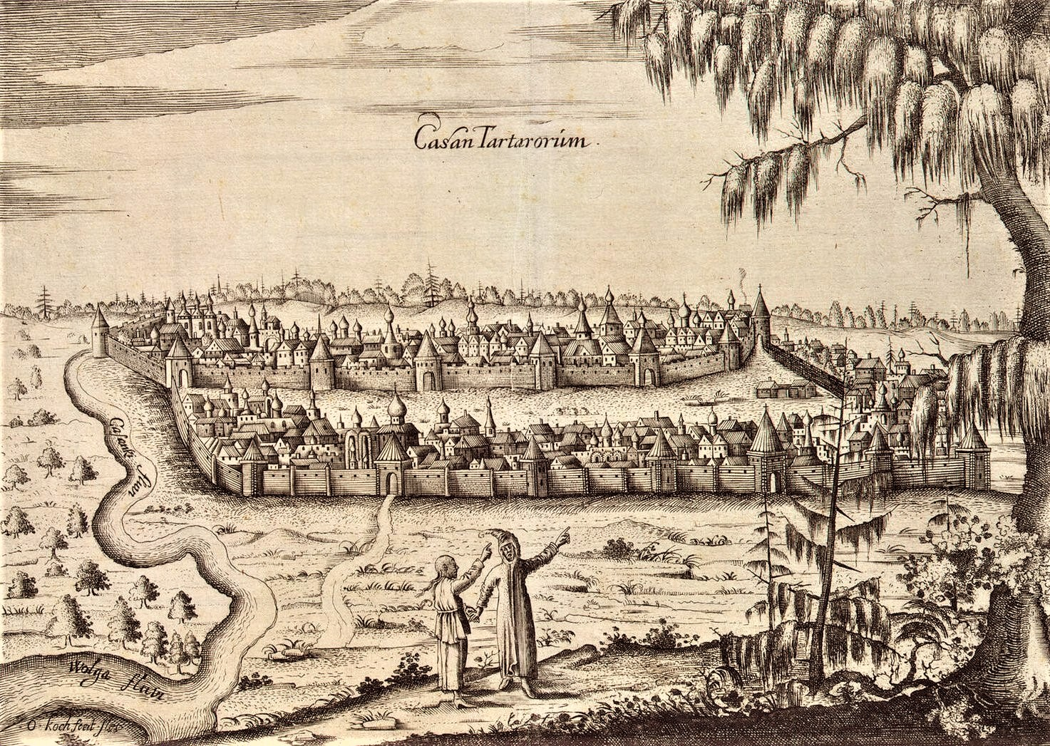 Russian city Kazan by Adam Olearius